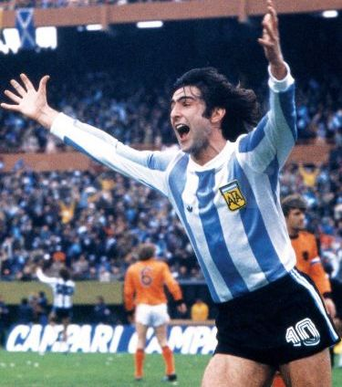 Mario Kempes celebrating one of his goals v. Netherlands at the World Cup final.